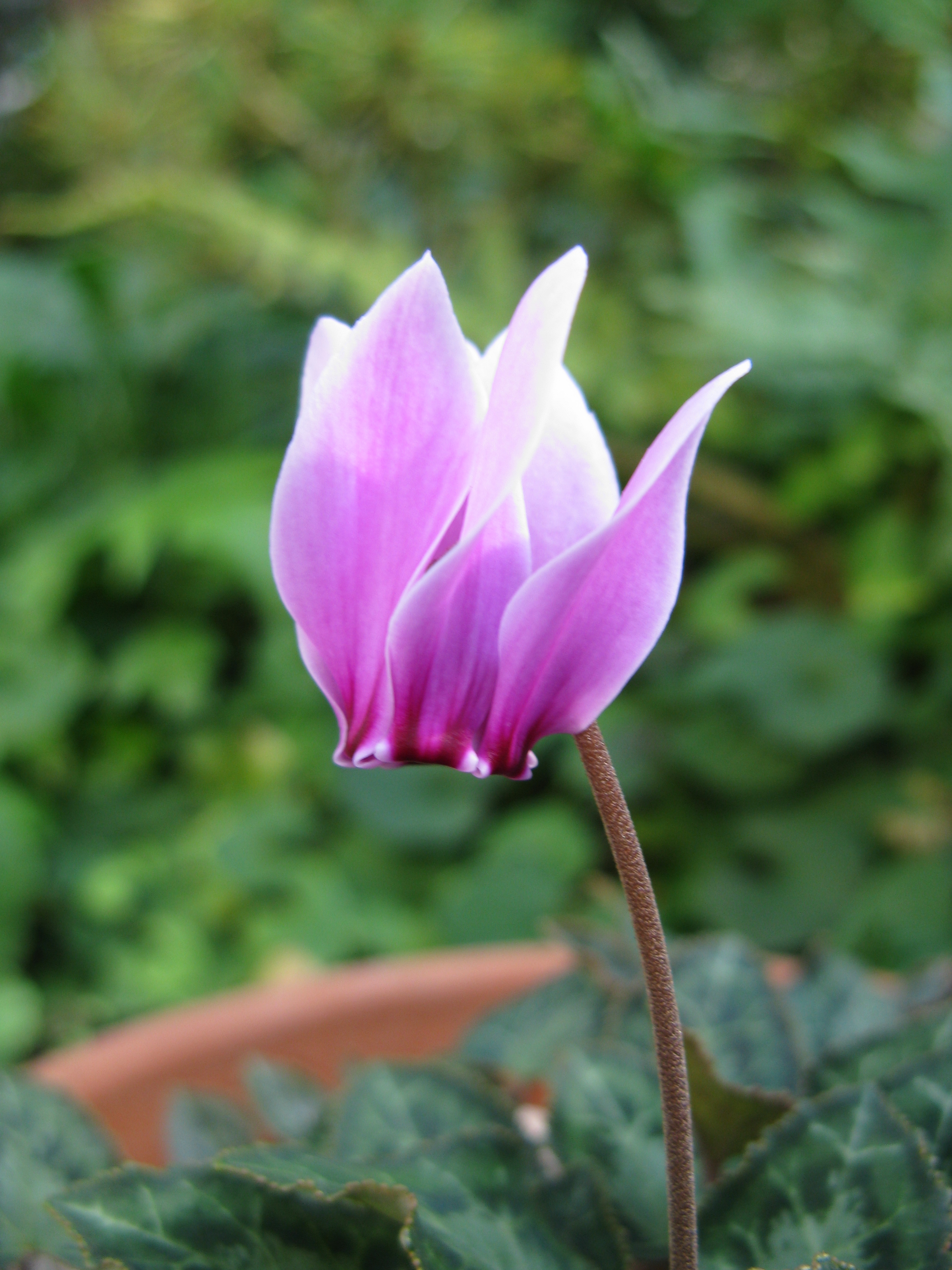 Cyclamen graecum Place:Osaka Prefectural Flower Garden,Osaka,Japan